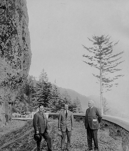 Portrait of C. C. Colt, Samuel Hill and Henry Solon Graves on the Columbia Ridge Highway, circa 1910. Courtesy of the Henry Solon Graves Papers, Yale University Manuscripts & Archives Digital Images Database, Yale University, New Haven, Connecticut. Retouched by MarmadukePercy.